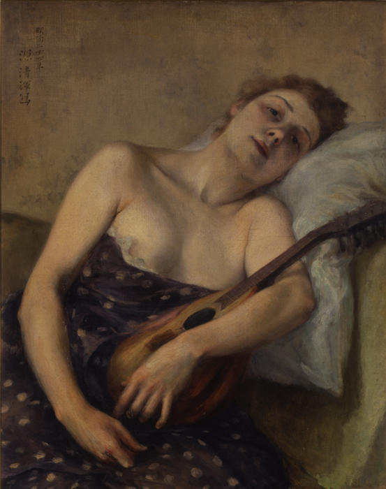 Woman holding a mandolin, by Kuroda Seiki, Kuroda Kinenkan, Tokyo National Museum, Japan